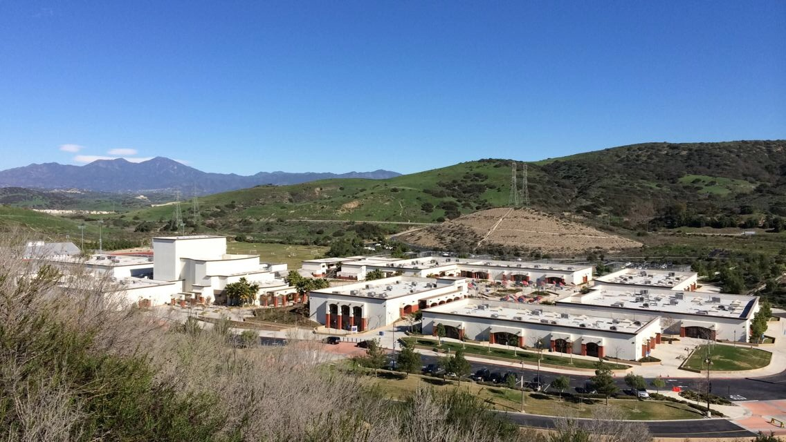 San Juan Hills High School from the top of a trail, looking towards the Saddleback Mountains.